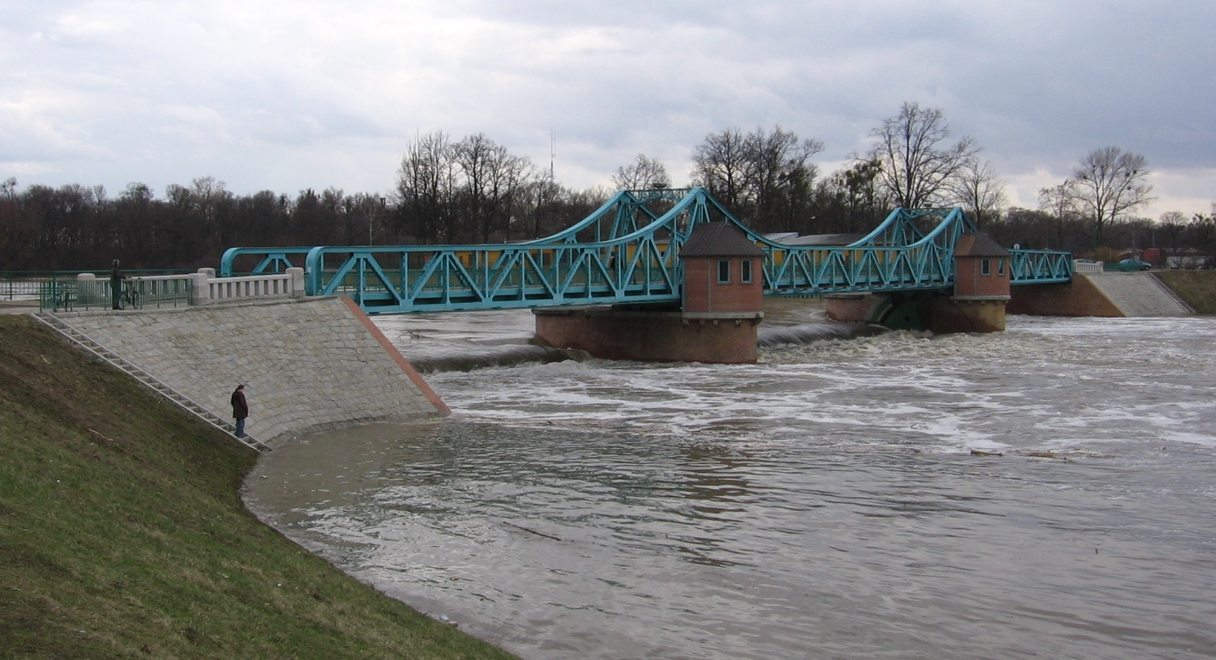 Bartoszowicki Bridge & Weir during high water (April 1st, 2006)